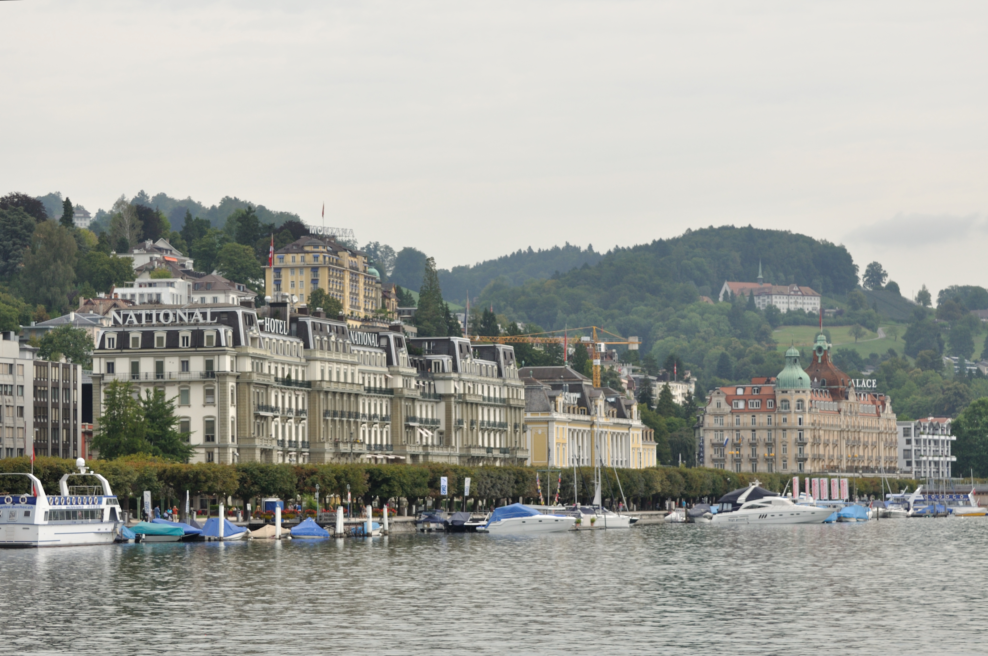 Switzerland, Canton of Lucerne, views in Lucerne.